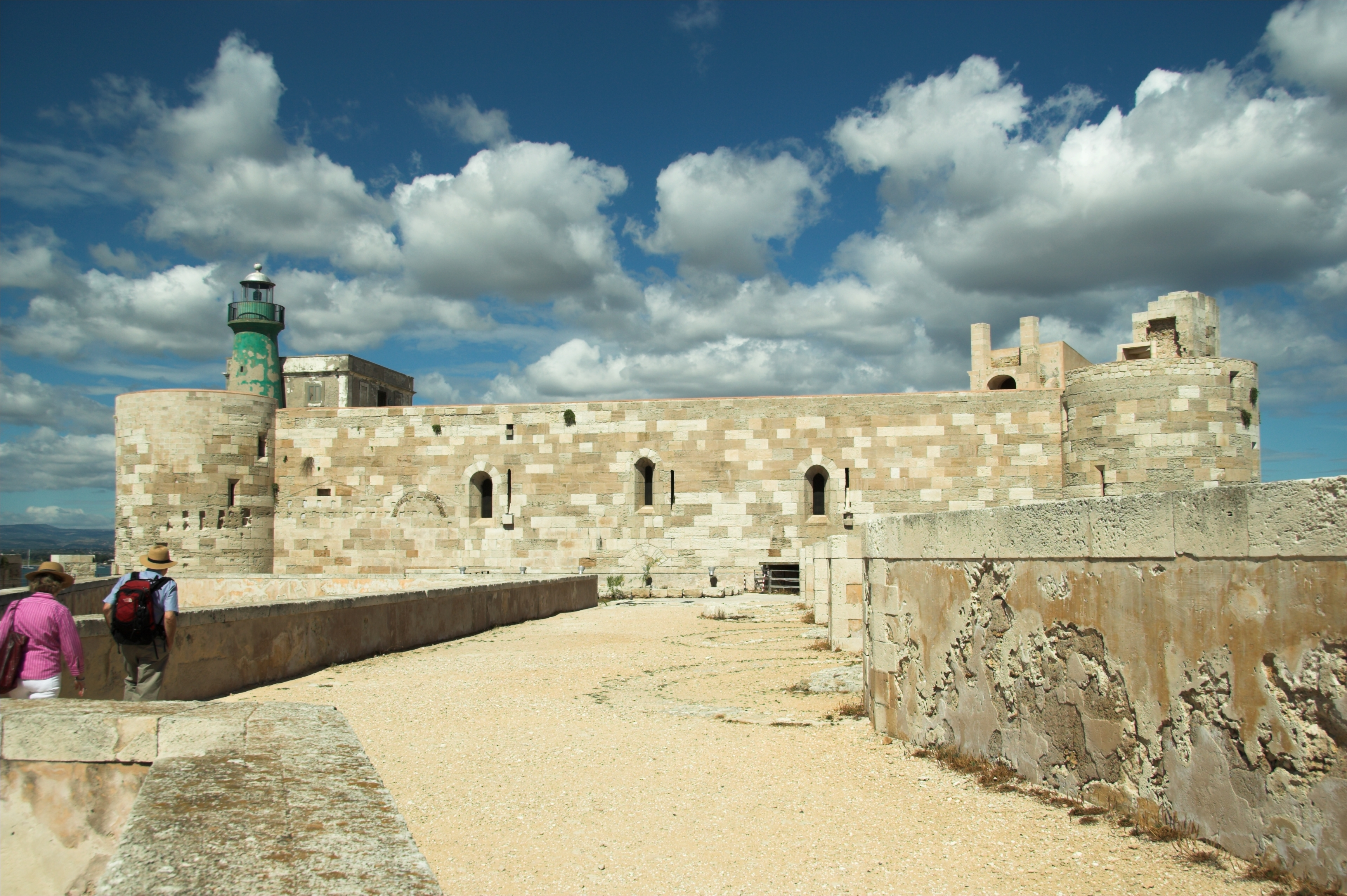 Maniace castle. Ortygia, Syracuse.